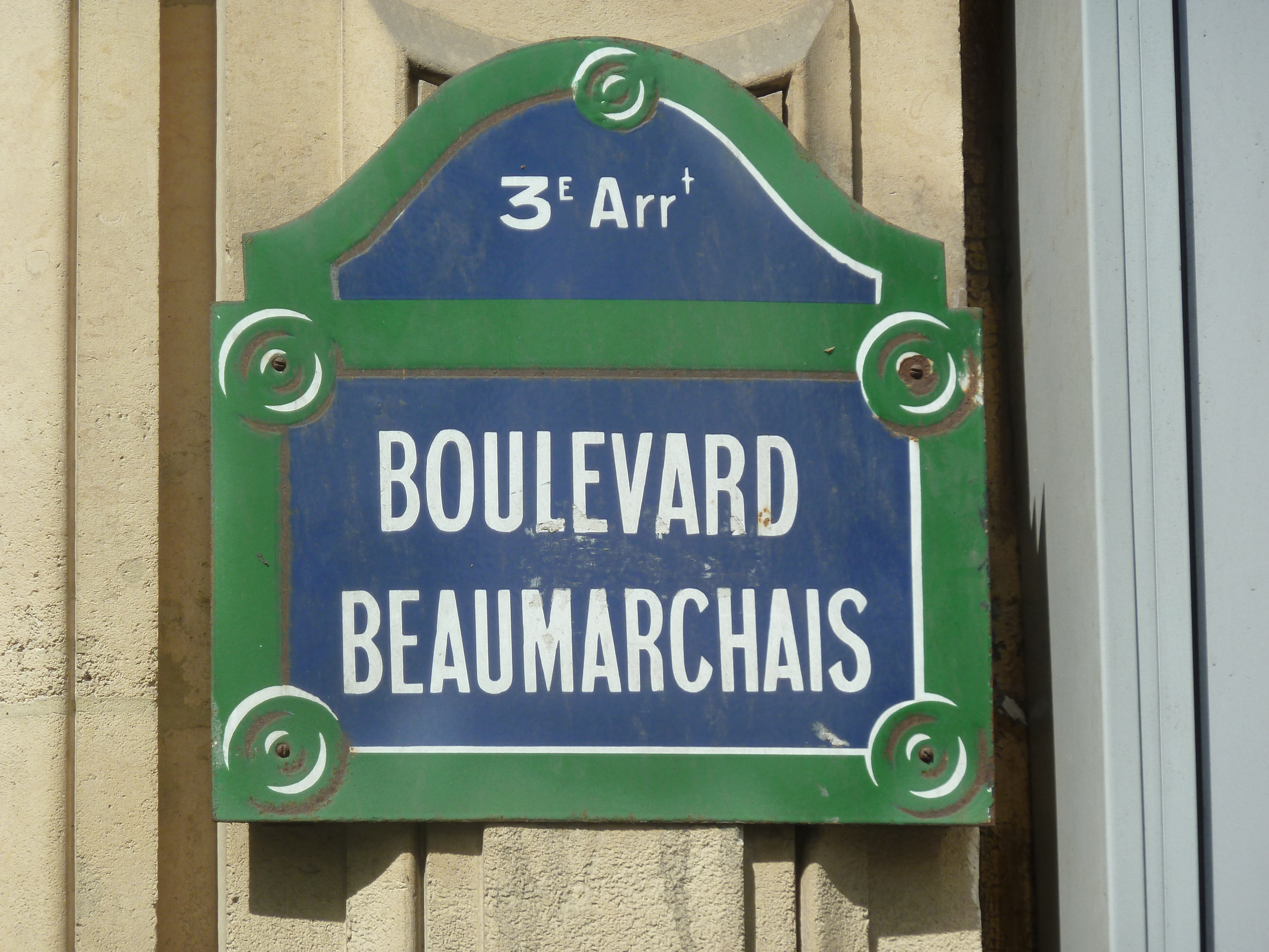 Paris - Boulevard Beaumarchais street sign